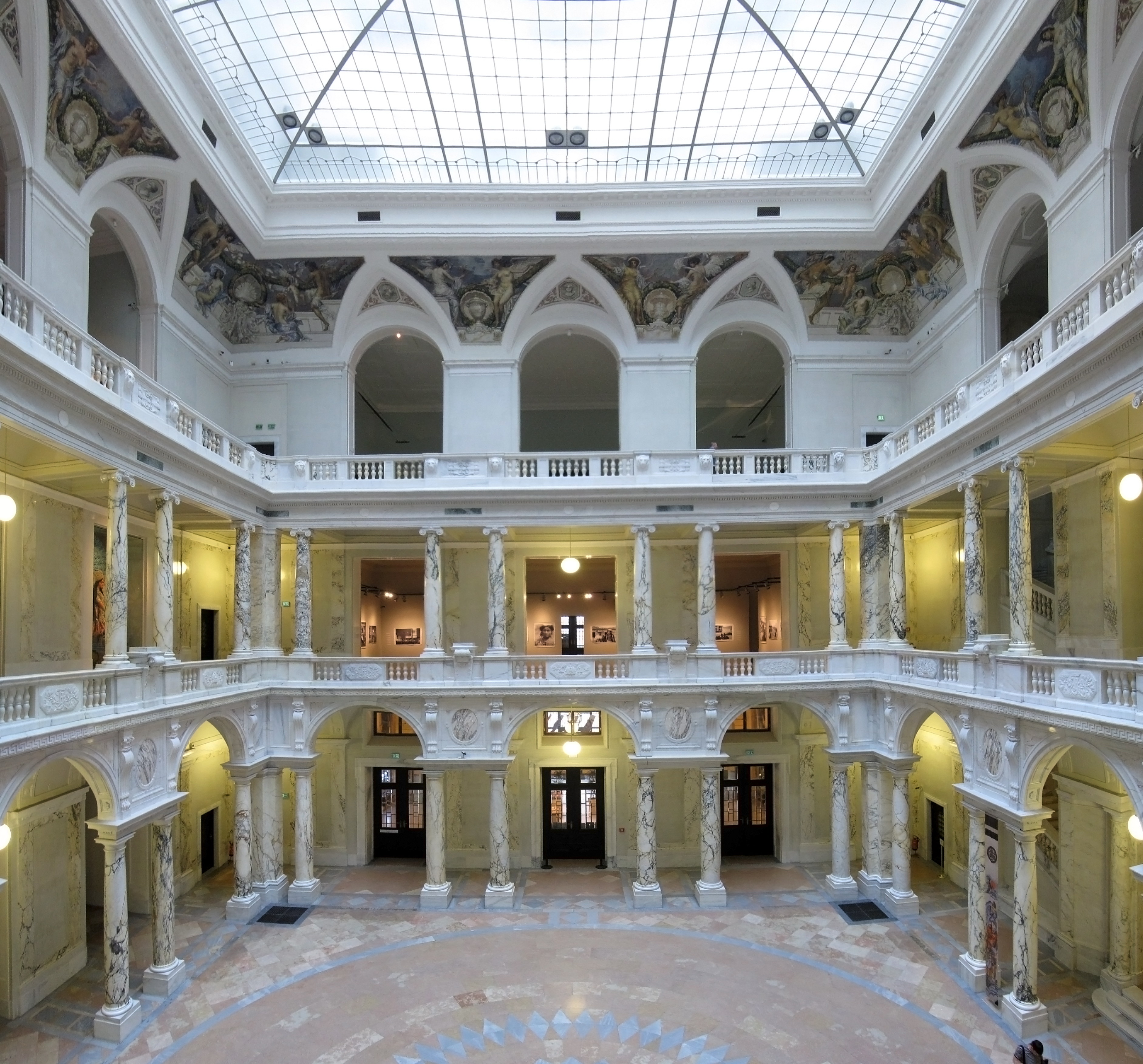 Glassed courtyard of the Corps de Logis wing of Hofburg palace in Vienna.